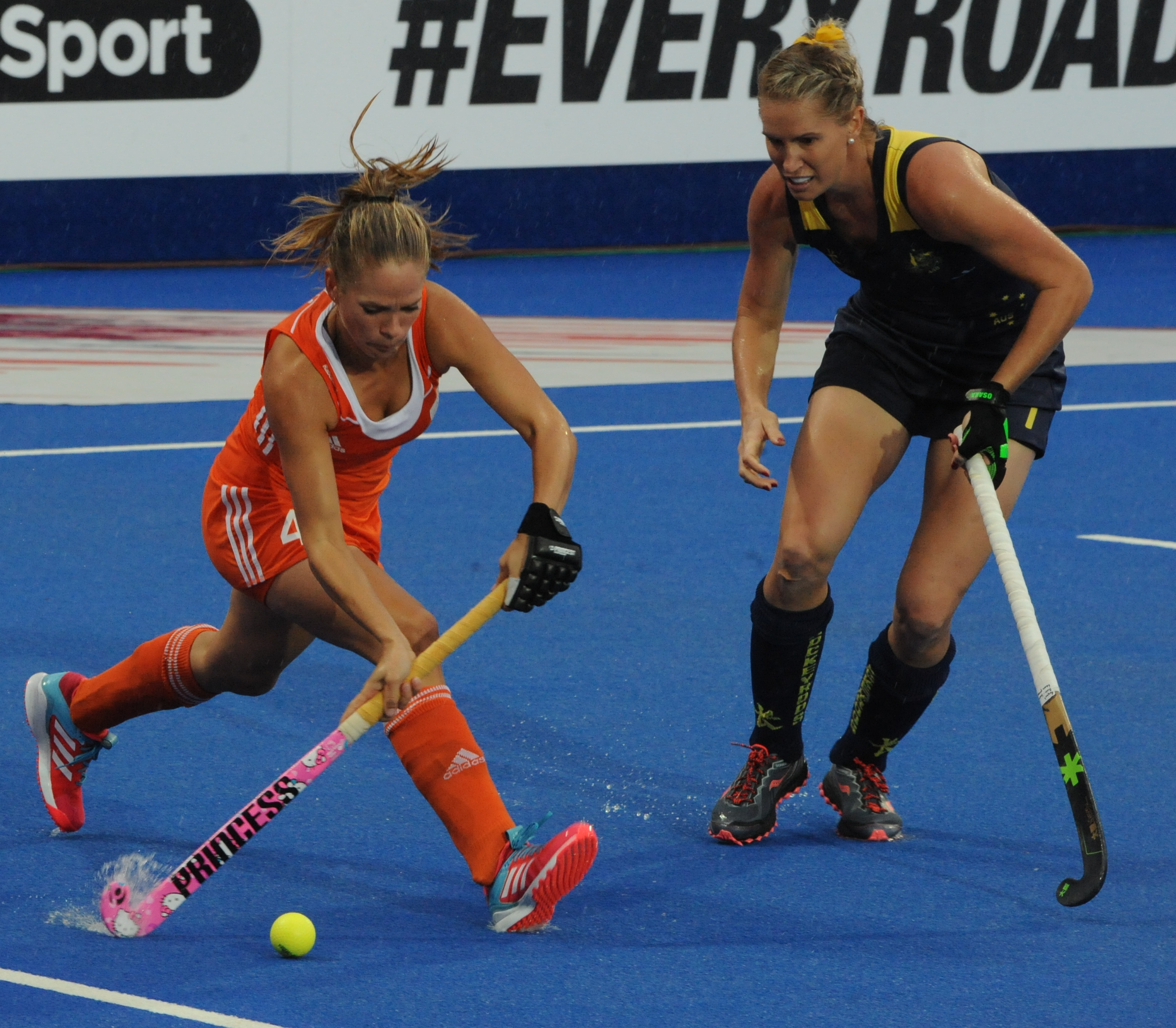 CT 2016: Australia v Netherlands